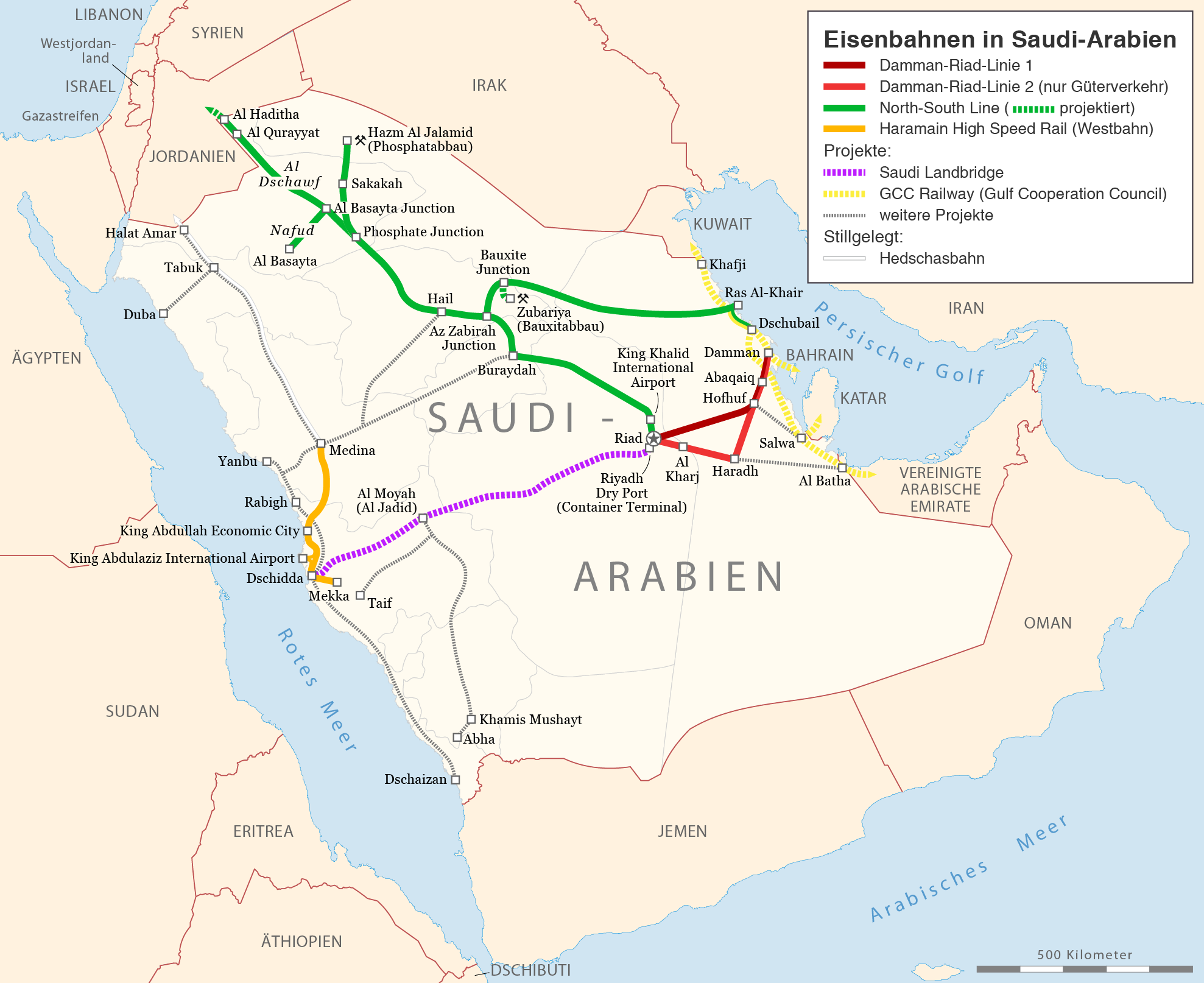 Railway map of Saudi Arabia